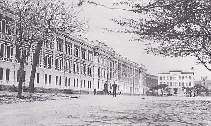 Ryojun College of Engineering